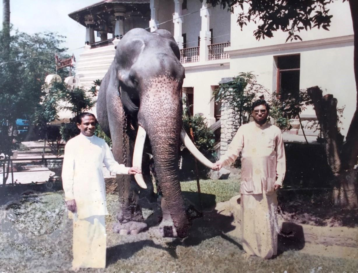 Photograph of Raja (elephant) with Hon.Ranasinghe Premadasa & Mr.Neranjan Wijeyeratne